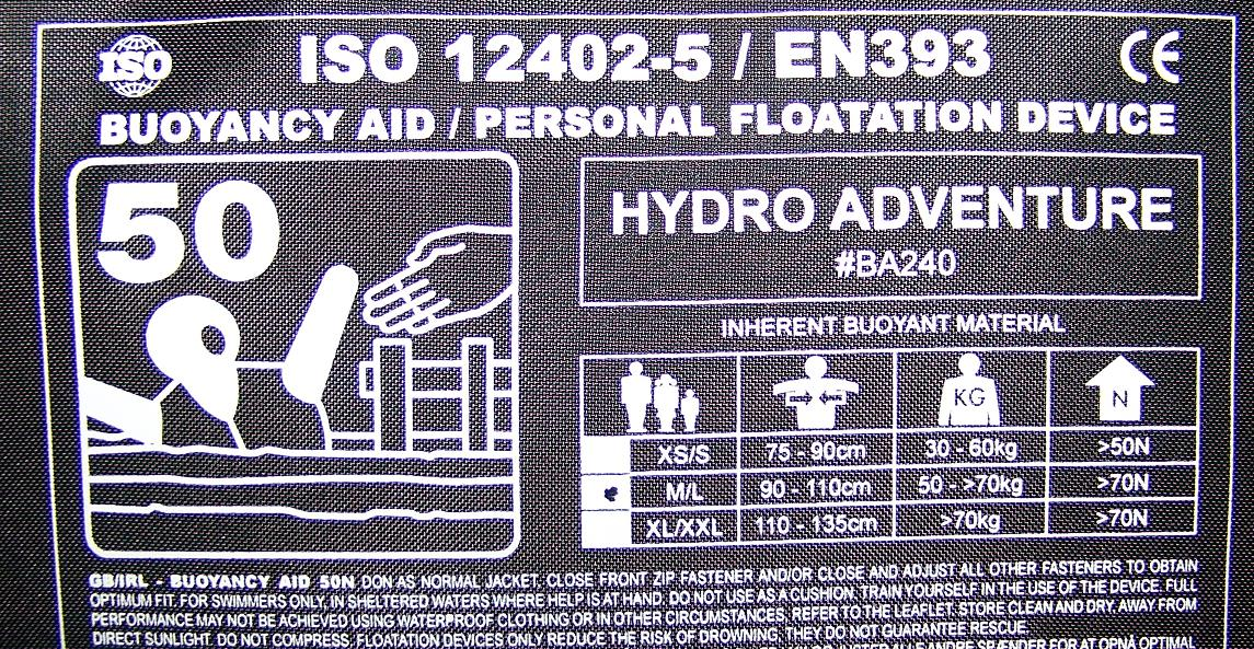 PFD Size table